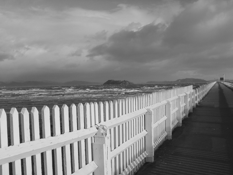 Southerly storm at the Wellington Harbour, Wellington, New Zealand. View from the Petone Wharf, with Matiu/Somes island in the background. Author:Whaka.